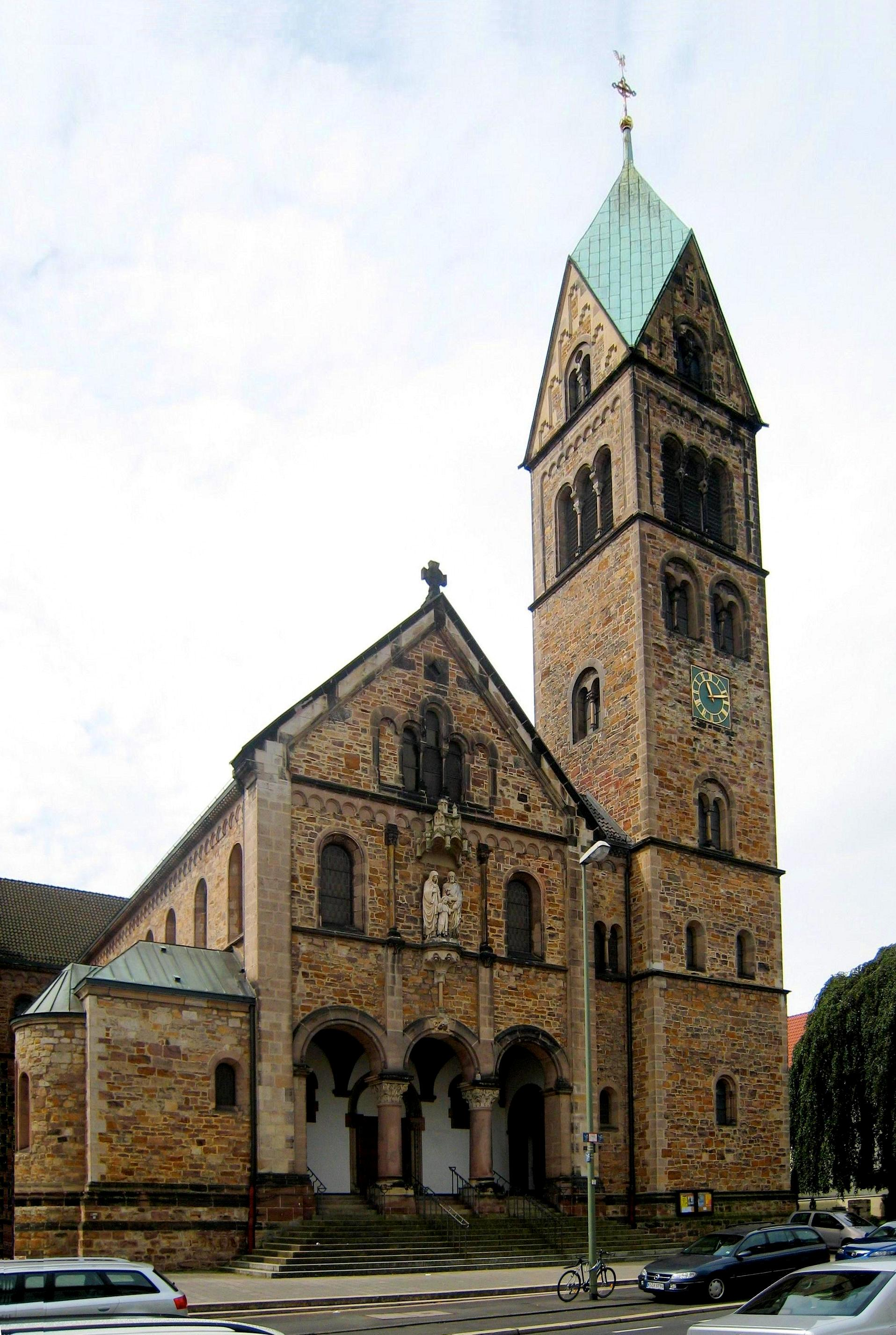 St. Familia was originally built as a second catholic church mostly for military servicemen in 1899. After its destruction in WW2, it was reconstructed in 1952.